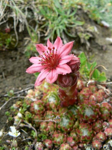 Cobweb Houseleek (Sempervivum arachnoideum), a photography by Abalg take 14/08/07 in National Park of Vanoise (France's Alpes)